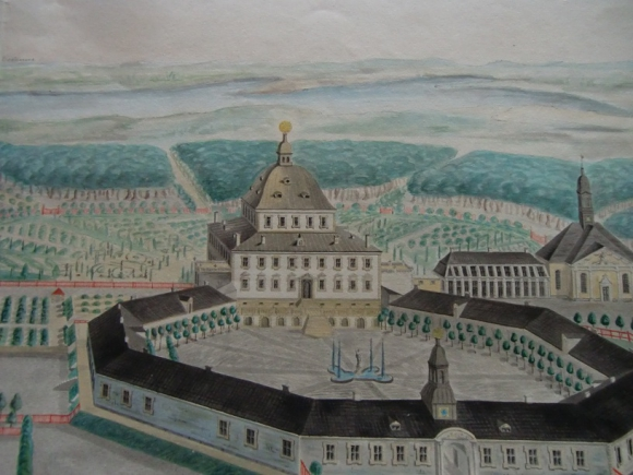 Fredensborg Slot north of Copenhagen, Denmark